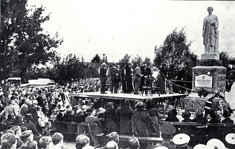 Dr Margaret Cruikshank was the first woman doctor registered in New Zealand and served in Waimate from 1897 to 1918. She died during the 1918 influenza pandemic and a memorial statue was unveiled in 1923. Situated on the corner of Seddon Square in Waimate, the monument was sculpted by Trethewey and Berry of Christchurch. On it were carved the words 'The Beloved Physician/Faithful unto Death'. The 3-m-high figure was cut out of Italian marble, the largest block ever imported into New Zealand, and the sculptors were complimented on the excellent likeness achieved.